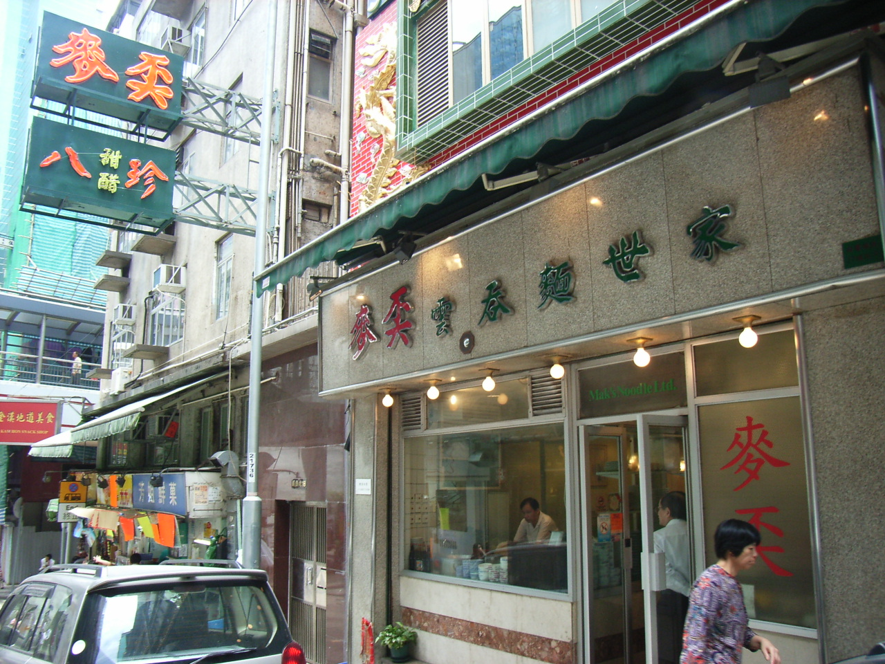 HK Wellington St Escalators